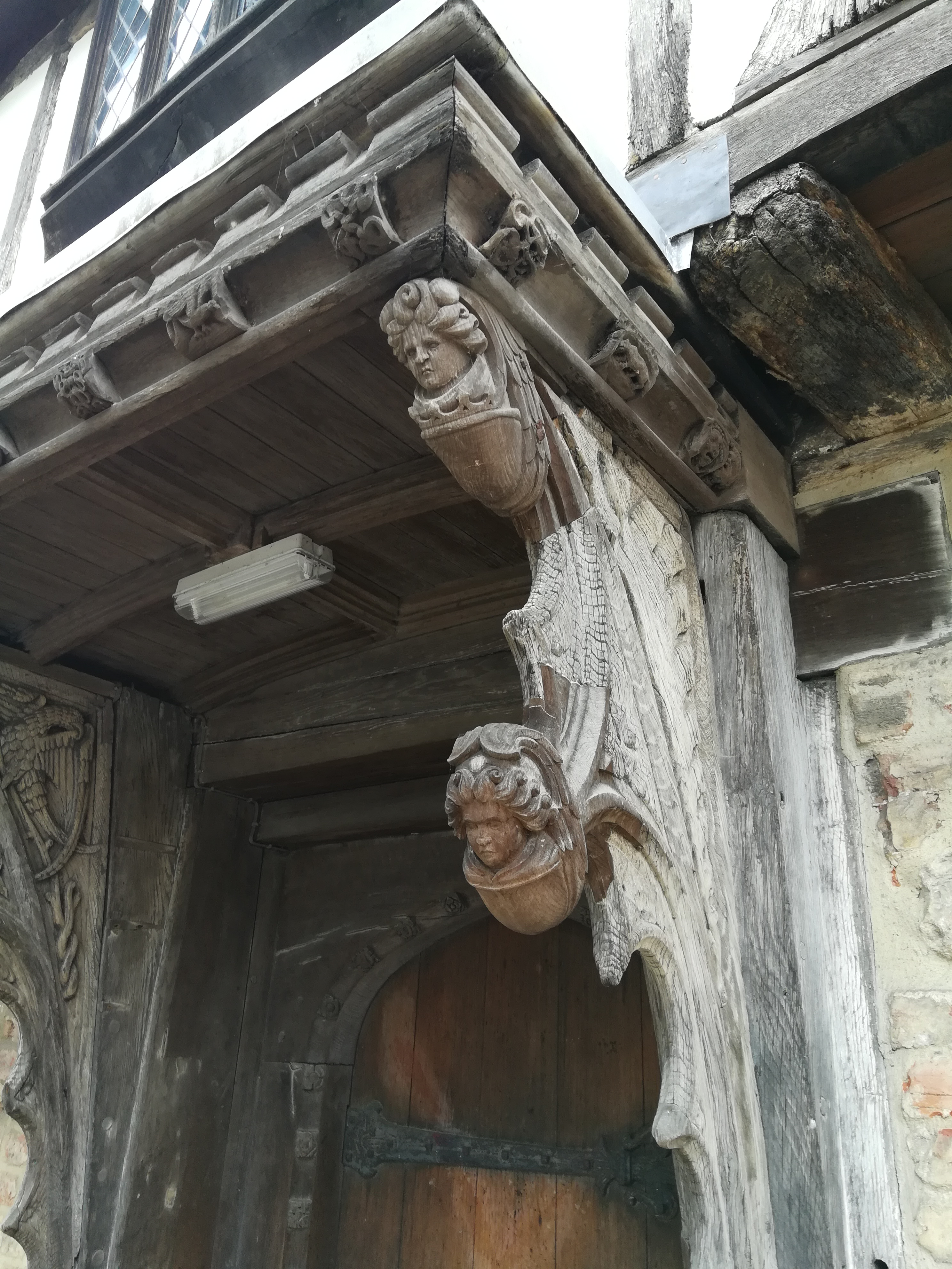 Close up of the 15th-century door canopy of Jacobs Well, York, originally at the Old Wheatsheaf Inn on Davygate.